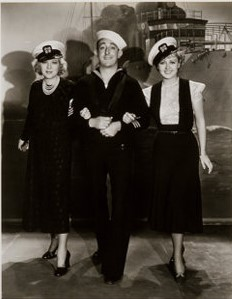 Vintage photo of Joan Blondell, Glenda Farrell, and Allen Jenkins in the film Miss Pacific Fleet (1935)